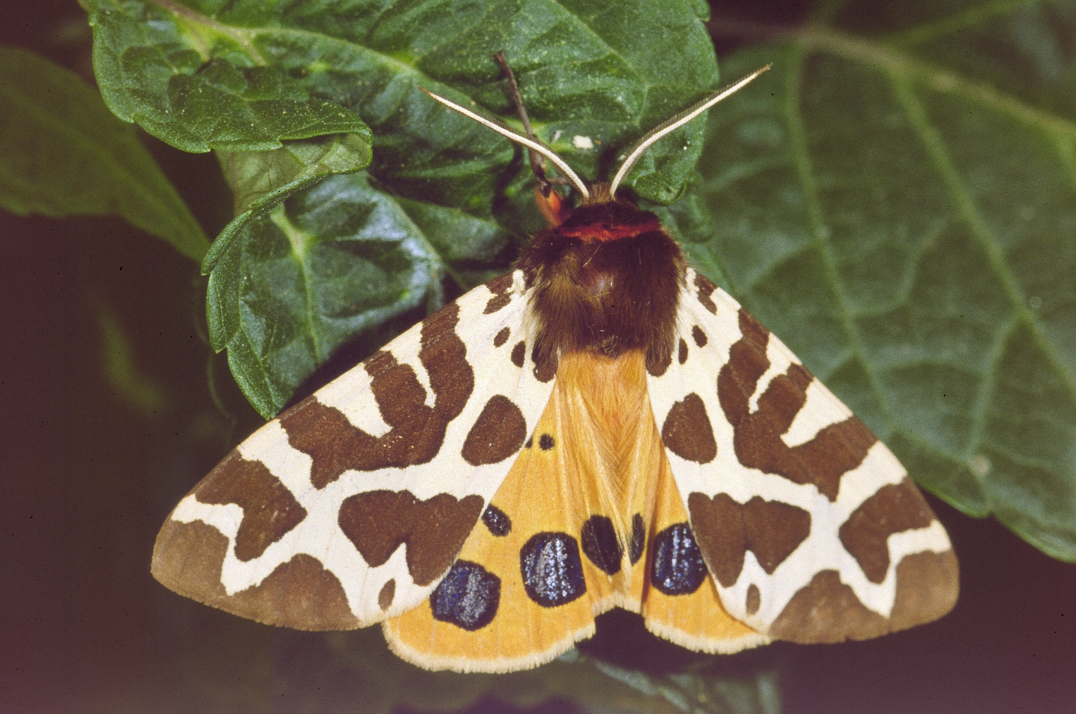 photographed in Calvados, in France.